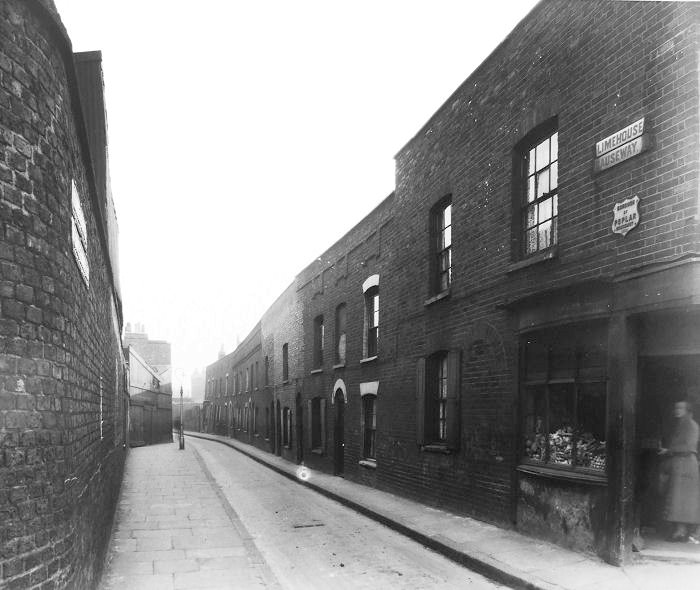 Limehouse Causeway November 1936.